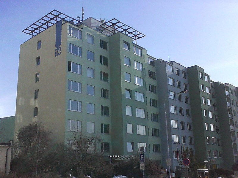 Prague-Černý Most, Bratří Venclíků 1073/8, a block with the municipal district office of the district of Prague 14.